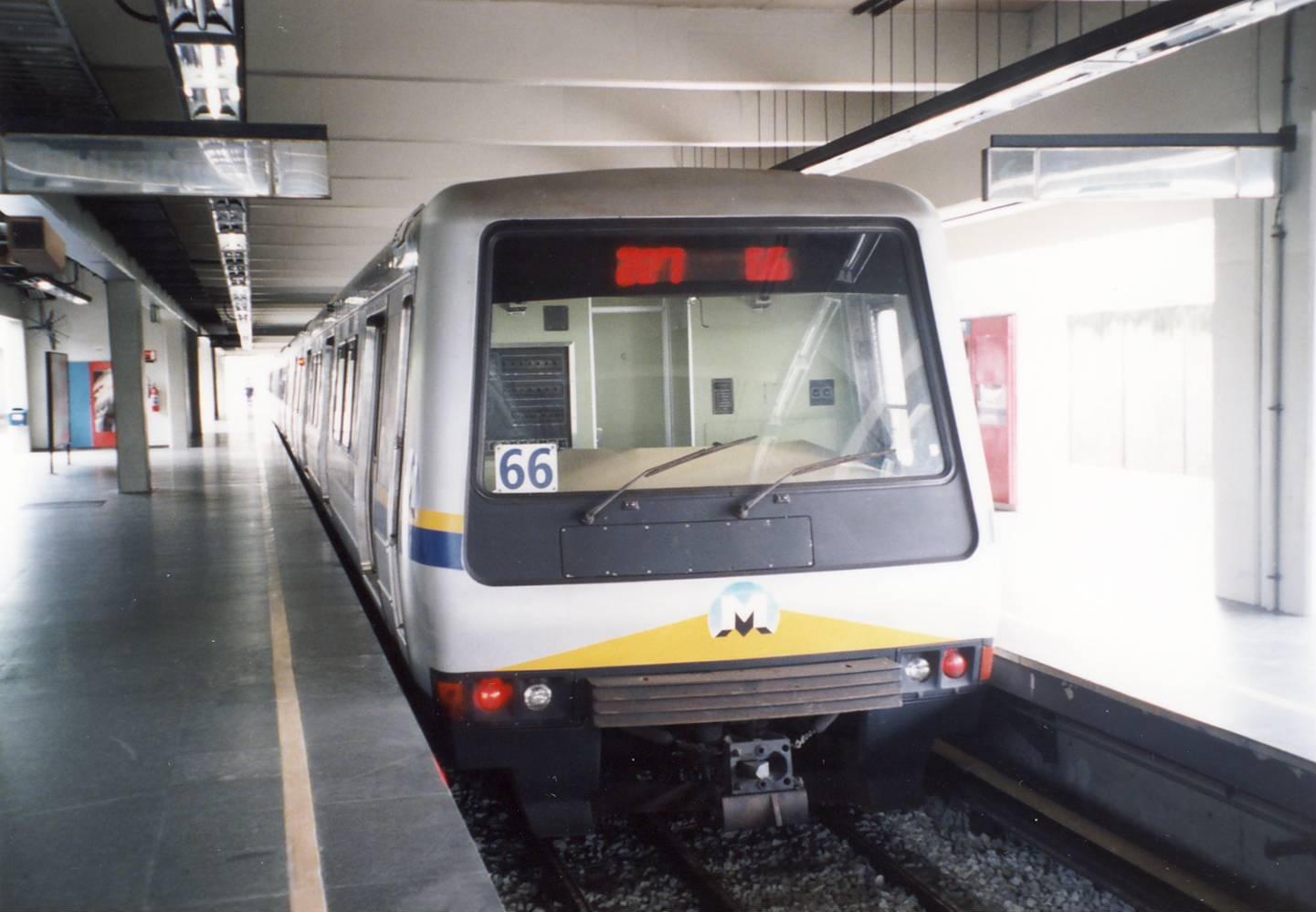 A type of EMU of Rio de Janeiro Metro, built b Alstom.